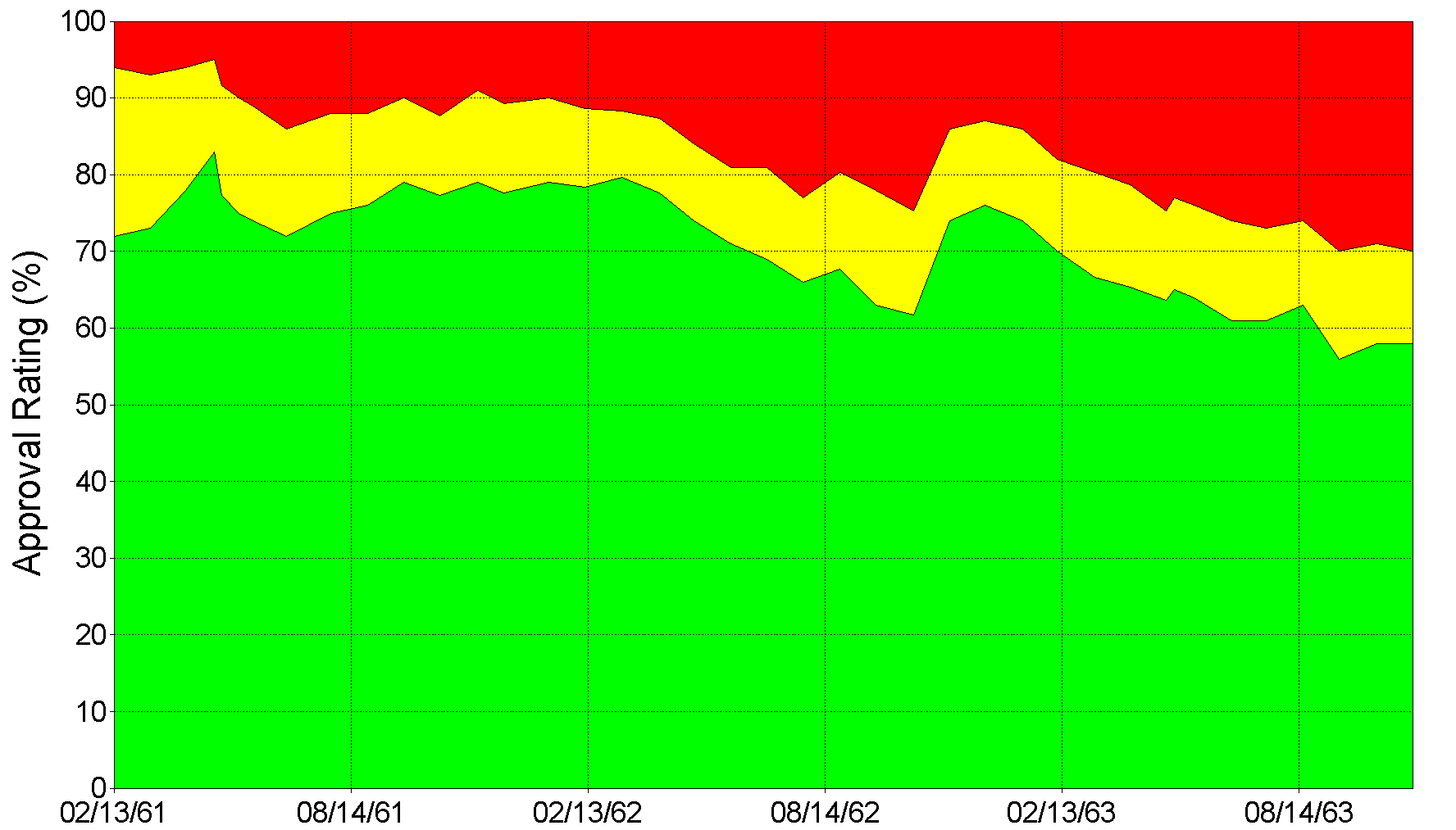 Approval rating for President Kennedy. Gallup Poll.